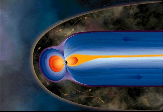 Obtained from NASA's website